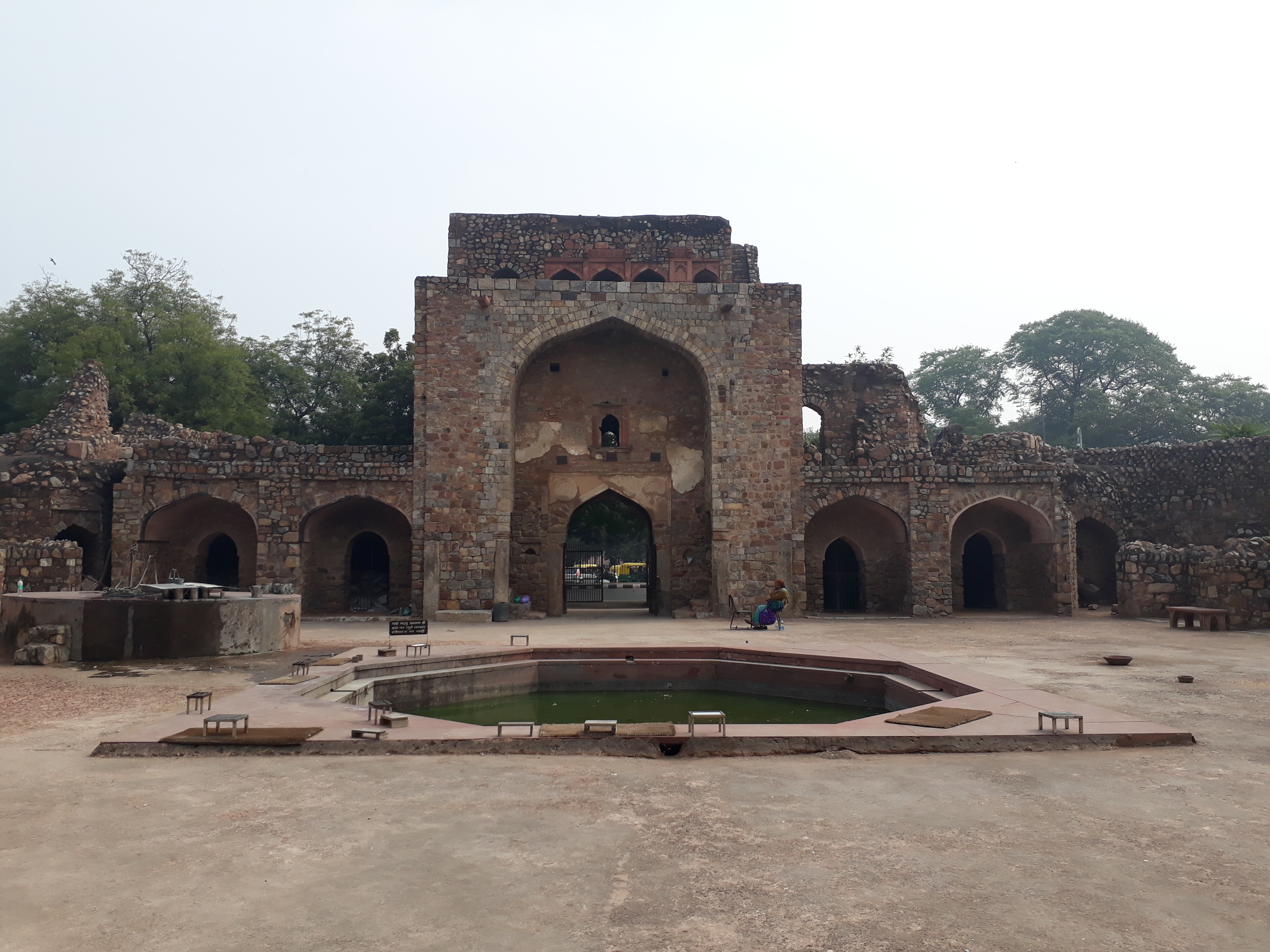 Inside the Khairul Manjil Tomb, New Delhi